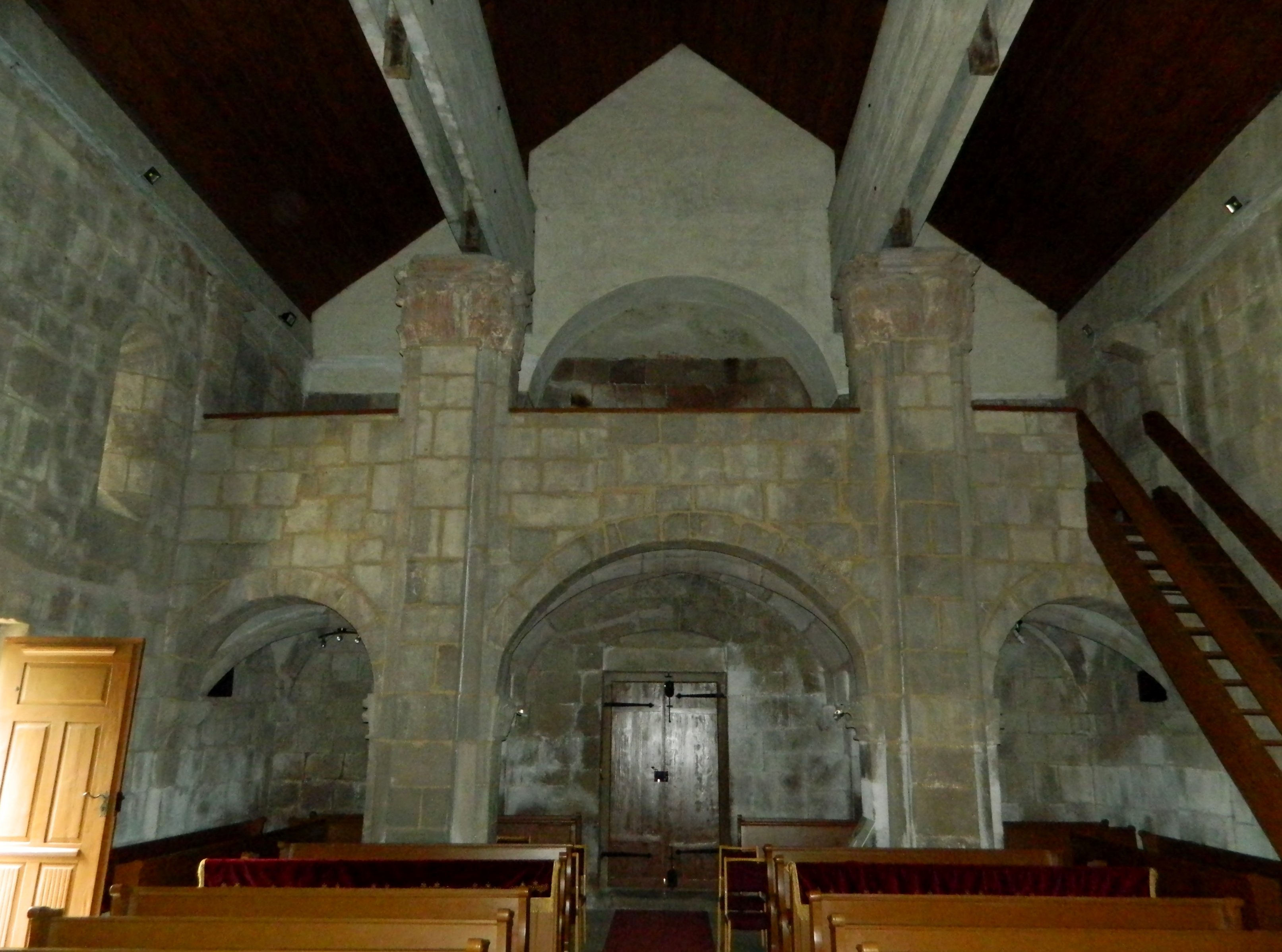 Reformed church in Karcsa